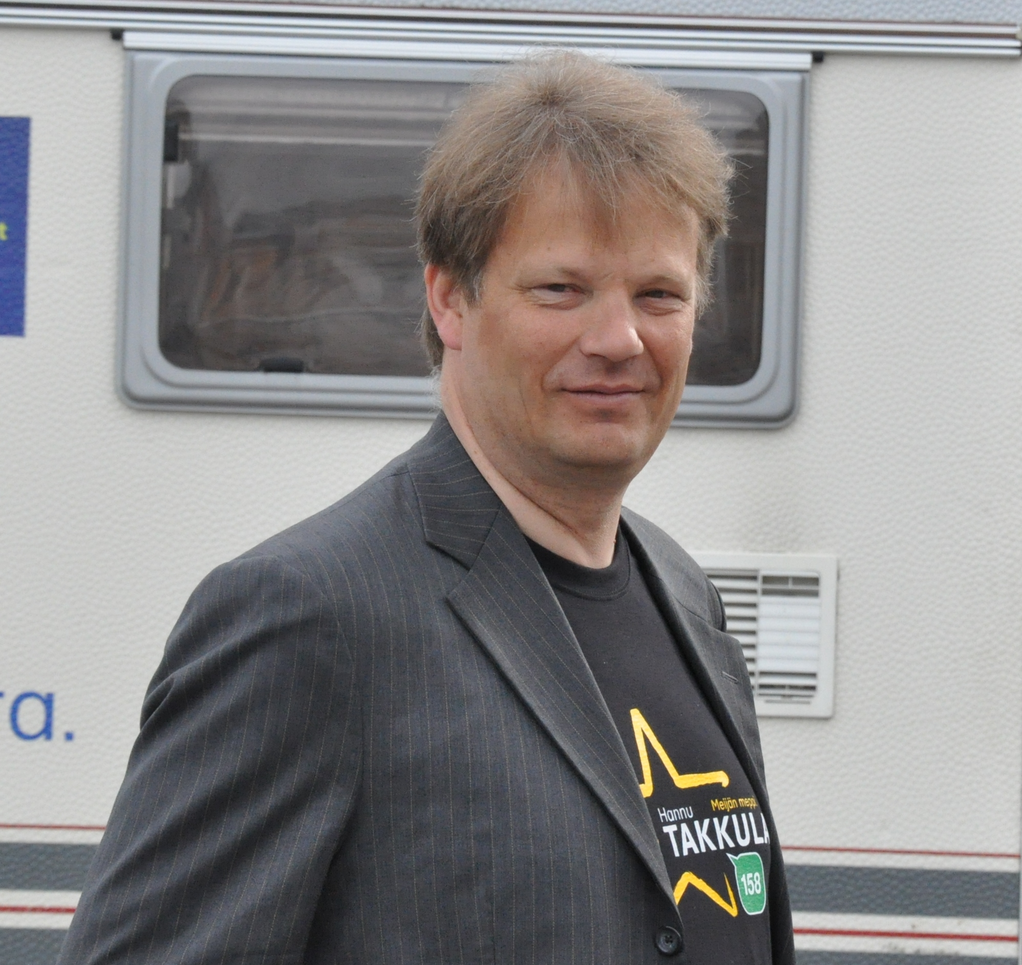 Finnish MEP Hannu Takkula in Turku, Finland 2009.